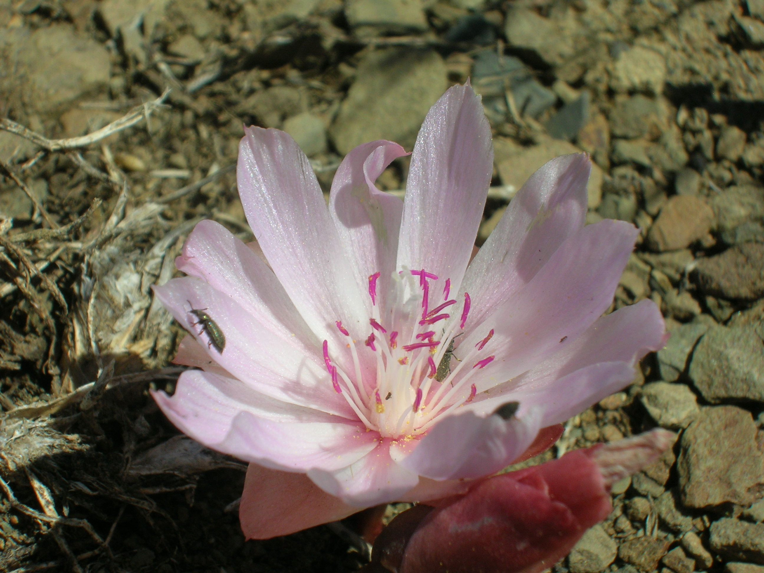 Lewisia rediviva on Tronsen Ridge Portulacaceae Dicot bitter-root Lewisia rediviva Pursh on USDA Plants Profile Lewisia rediviva Pursh on wikipedia Lewisia rediviva Pursh at Burke Museum, University of Washington Tronsen Ridge Kittitas County, Washington, USA Elevation 6200 feet (1900 m.) 8 July 2006 i070906 058